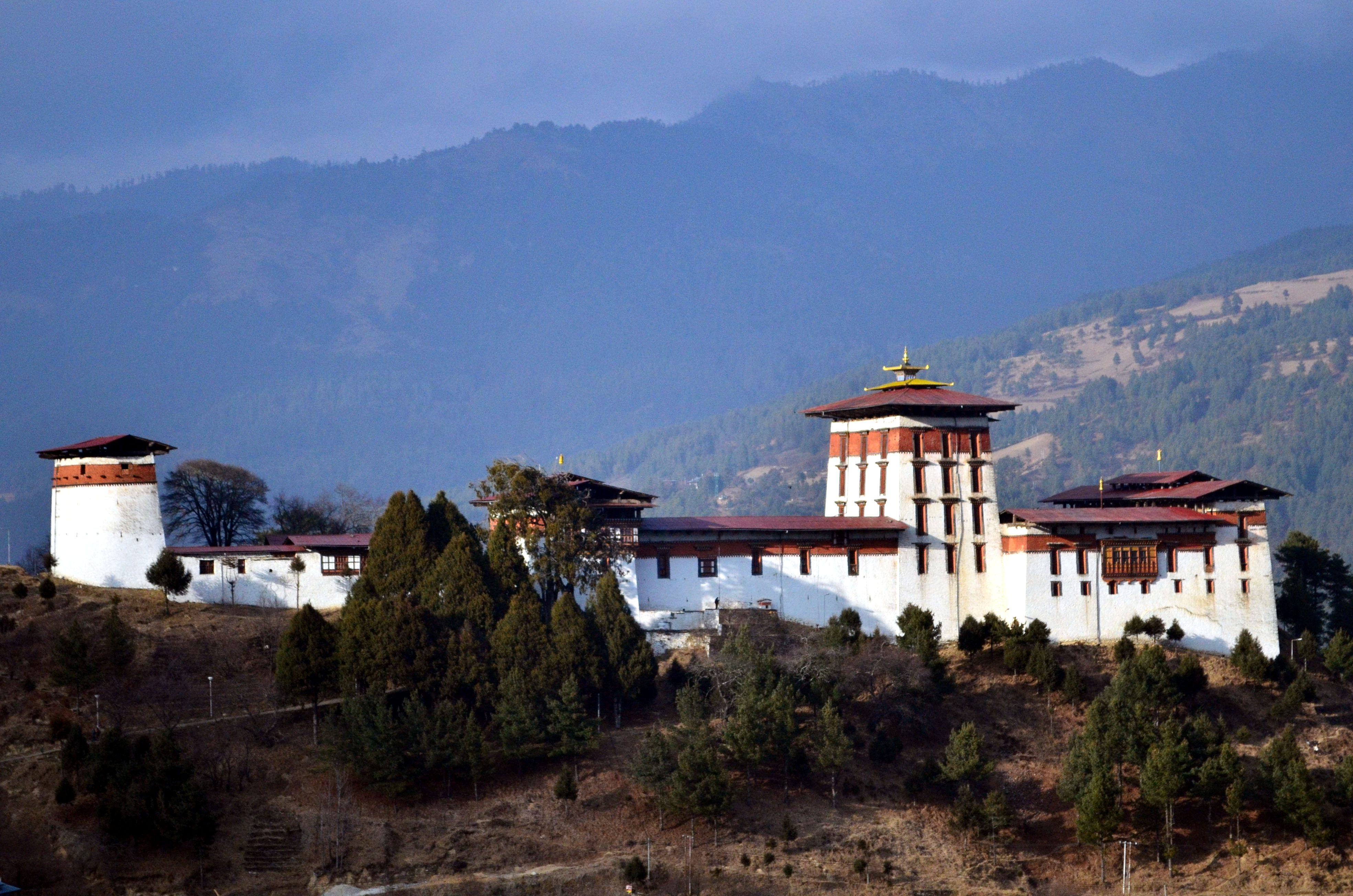 view of South side of Jakar Dzong